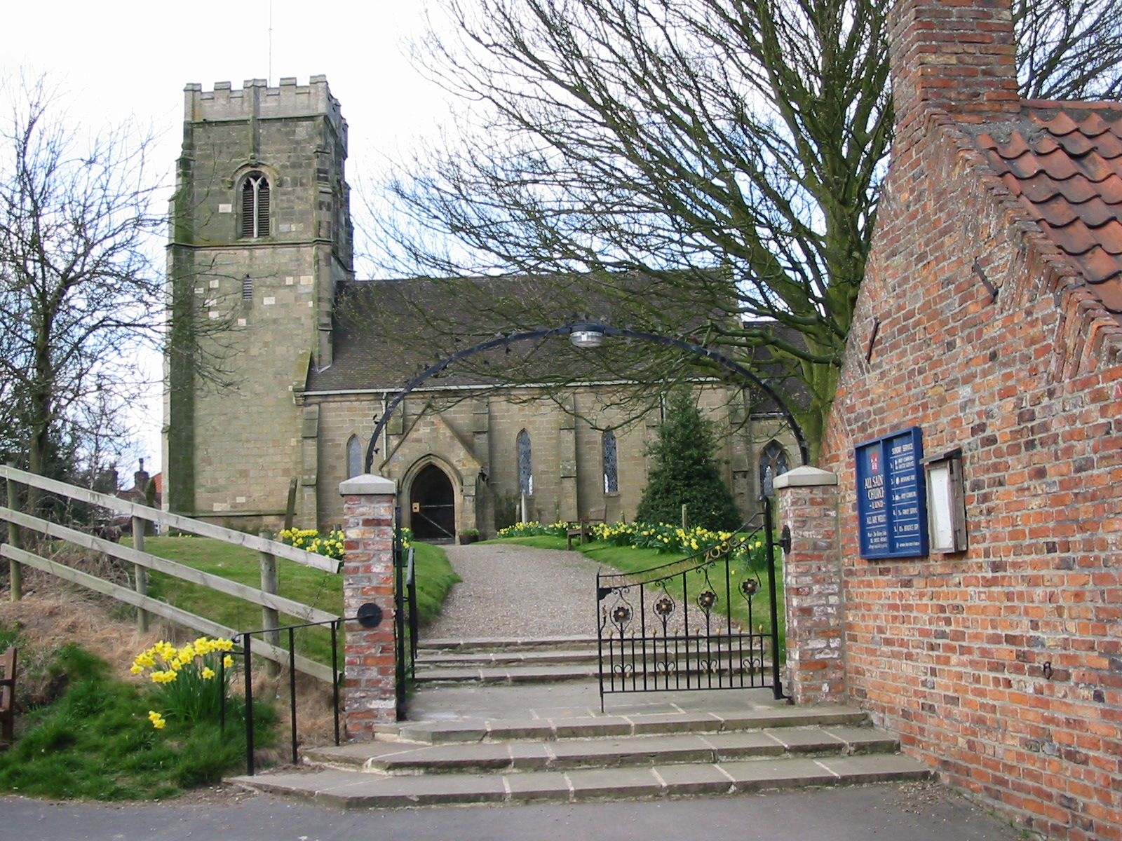 Lund Church (All Saints), Lund, East Riding of Yorkshire, England.